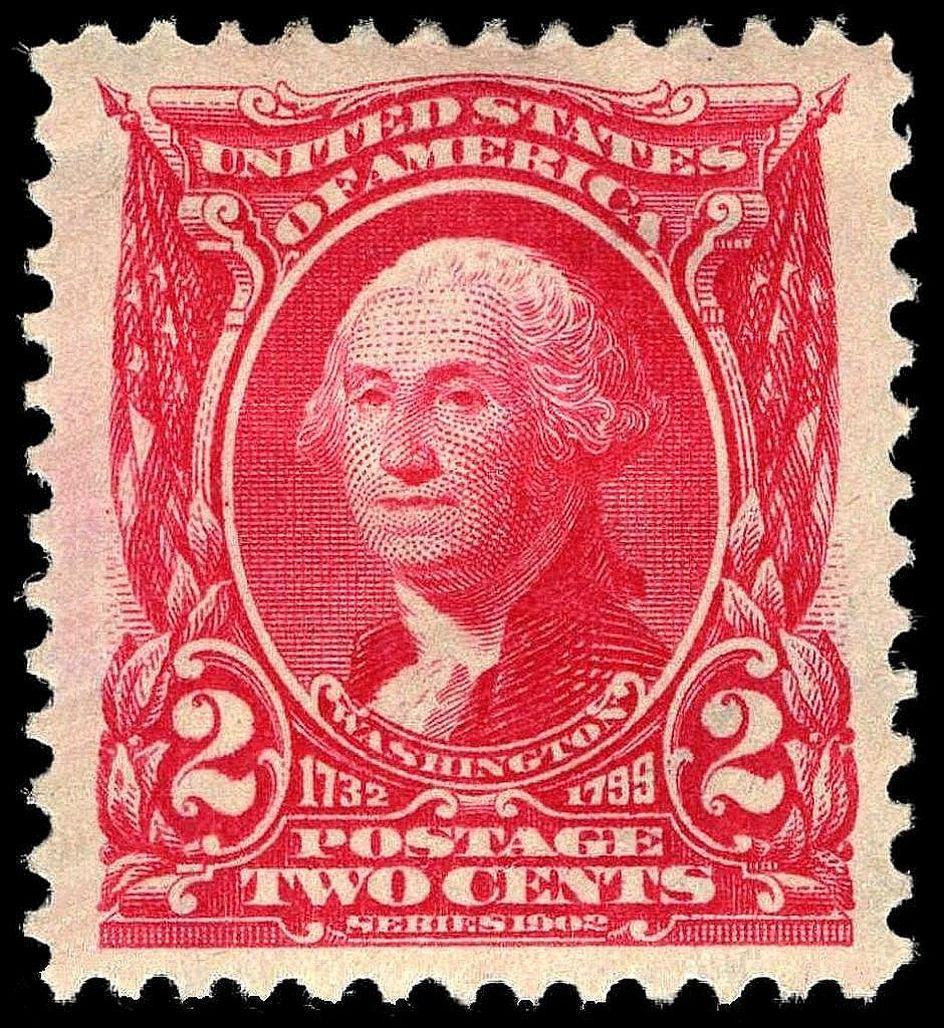 Image of George Washington stamp, 2c, issue of 1903Engraving was modeled after a painting by Gilbert Stuart. R. Ostrander Smith designed the stamp. The vignette, set between two American flags, is sometimes referred to as the Washington 'Flag' stamp by collectors. The die for the stamp was engraved by George F. C. Smillie (portrait), Robert F. Ponickau (frame), and Lyman F. Ellis (lettering and numerals).